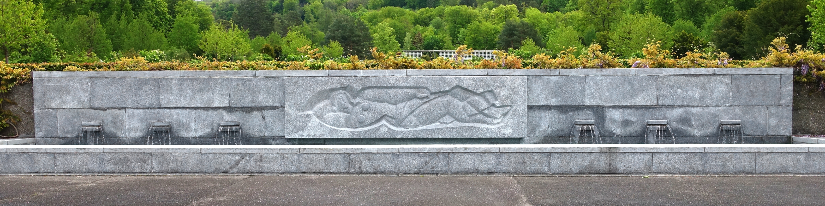 Louis Léon Weber (1891-1972) Bildhauer. Relief-Brunnengestaltung, 1930-38, Friedhof am Hörnli, Basel, Schweiz